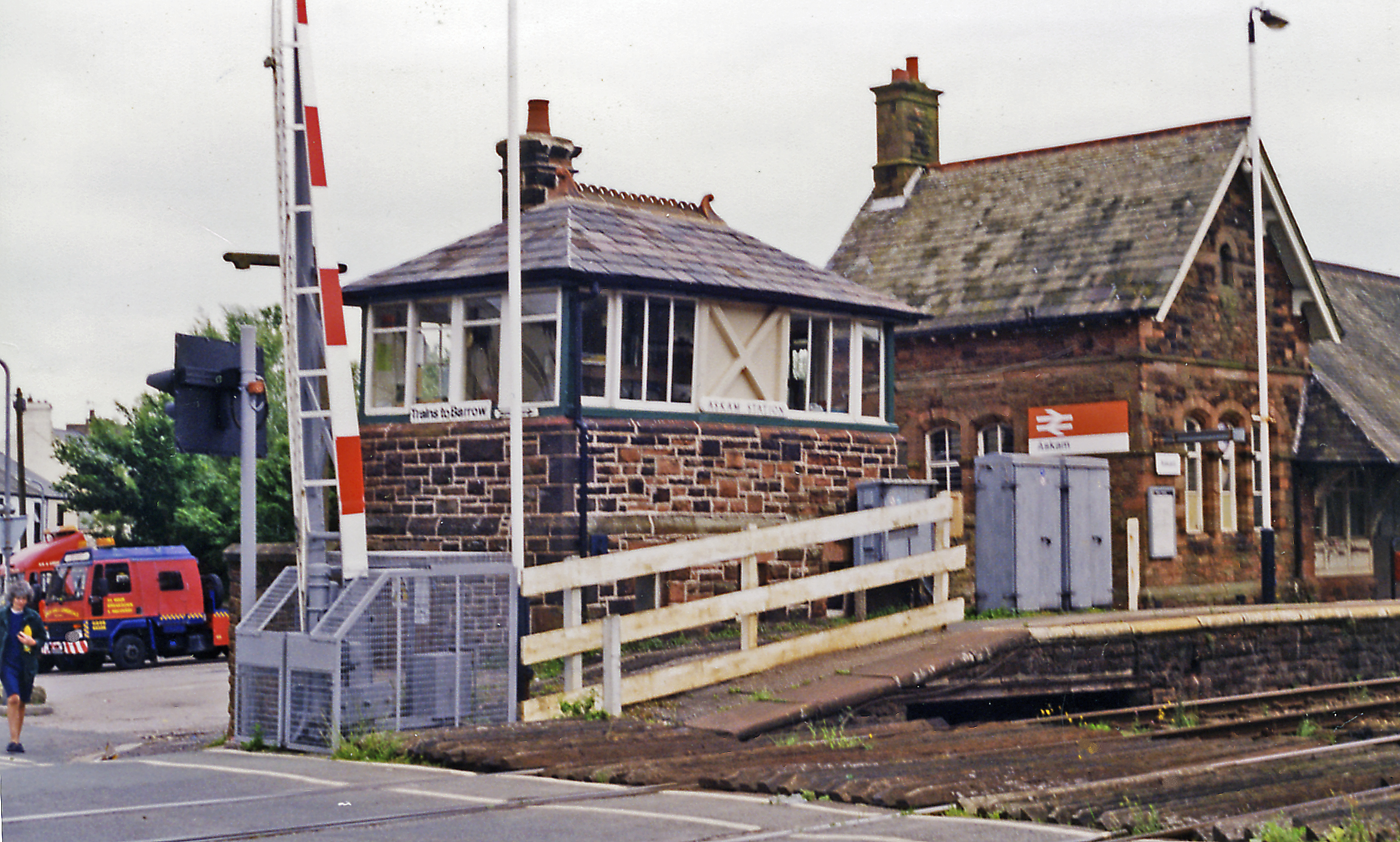 Askam station, signalbox and crossing, 1998. View southward, towards Barrow and Carnforth: ex-Furness Railway, Carnforth - Barrow -Whitehaven secondary main line.